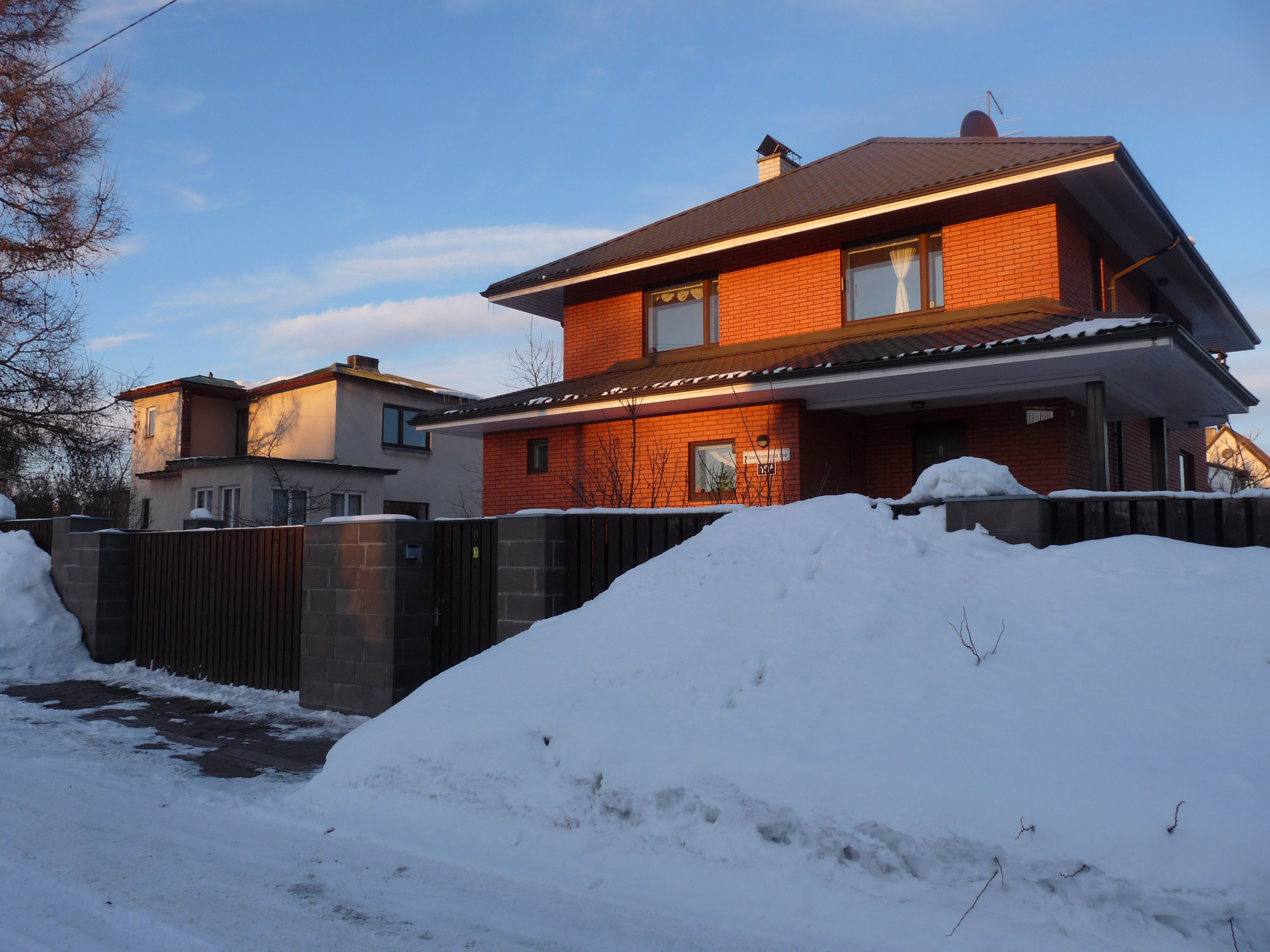 Kloostrimetsa 10A